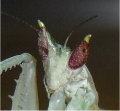 Head.